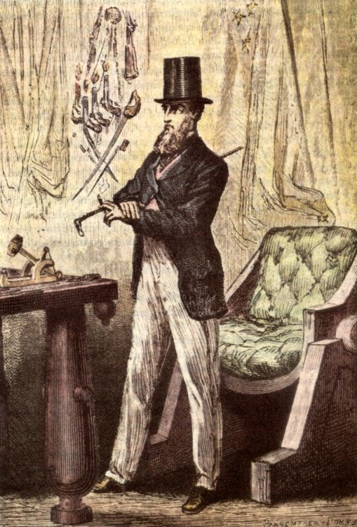 An illustration from the novel "From the Earth to the Moon" by Jules Verne drawn by Henri de Montaut. Portrait of Impey Barbicane, a character of the novel.